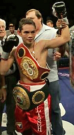 Nonito Donaire pic by McBride61, when he won the IBF an IBO belts against Vic Darchinyan at the Harbour Yard Arena on July 7, 2007.